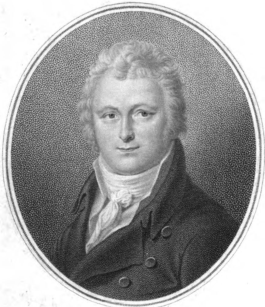 Correct picture of August Ernst Steigentesch (1774–1826)